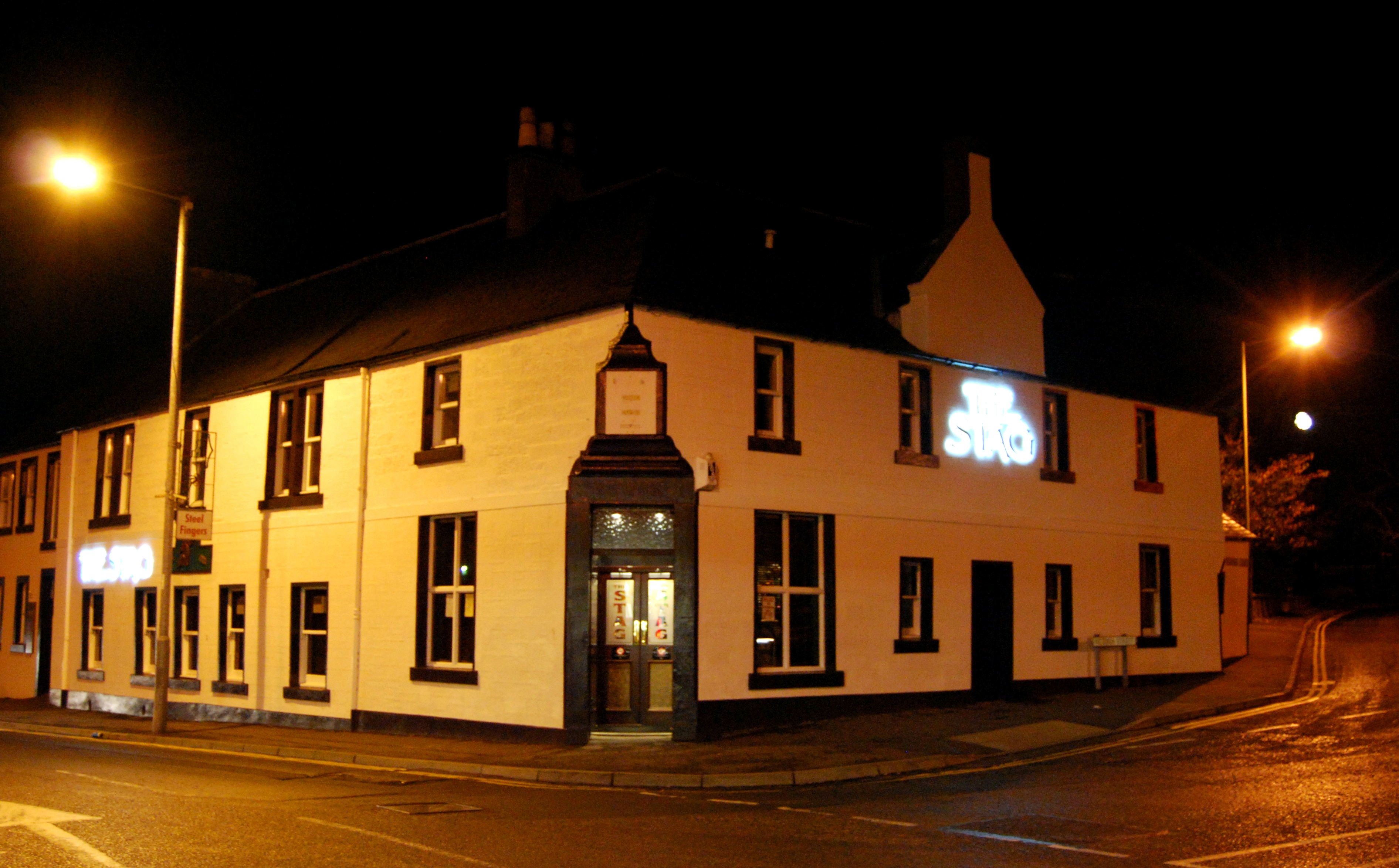 The Stag Pub Forfar Scotland